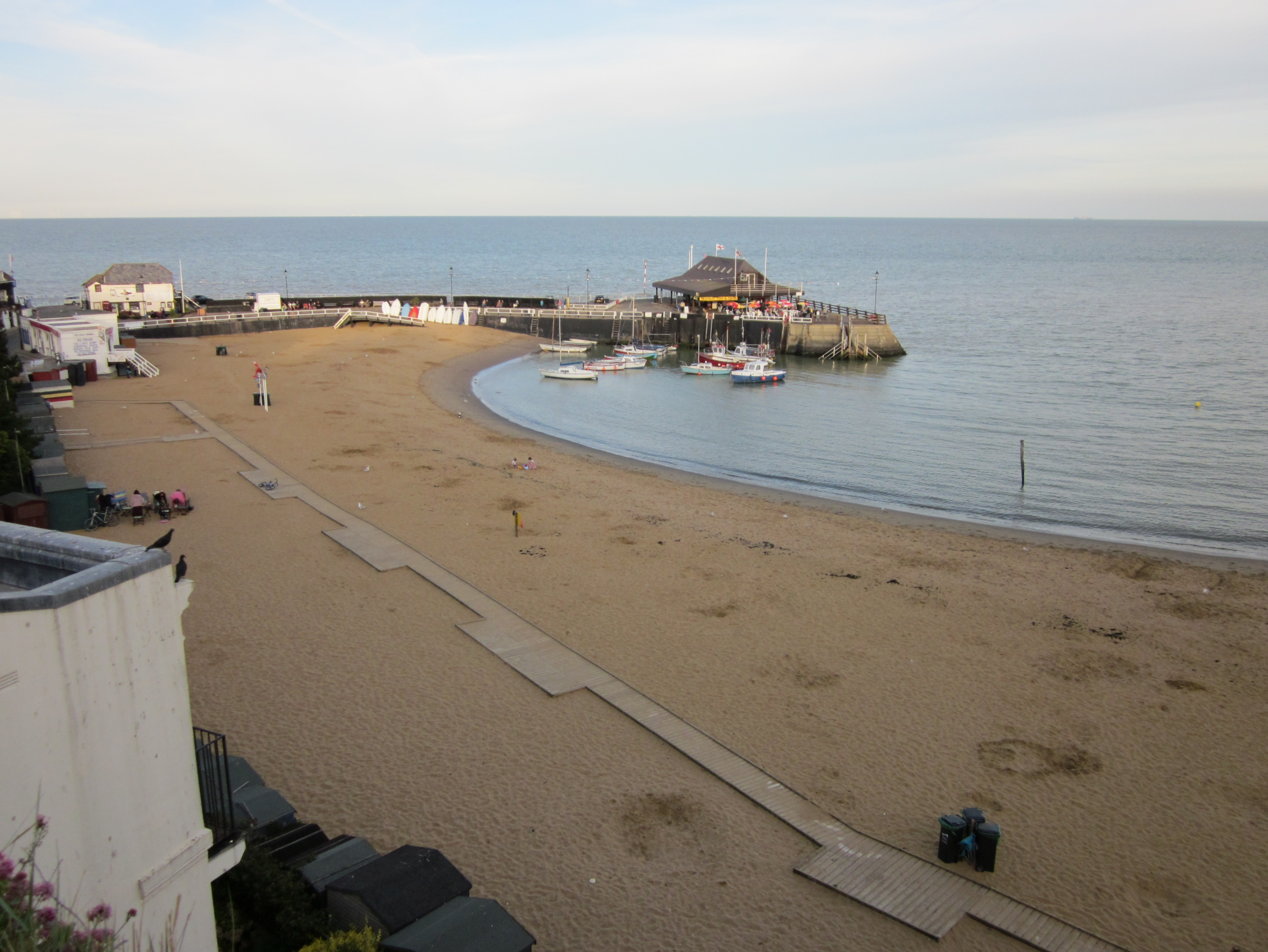 North end of Viking Bay, Broadstairs, Kent, UK. The lifeboat station is the white building on the left of the sea wall.